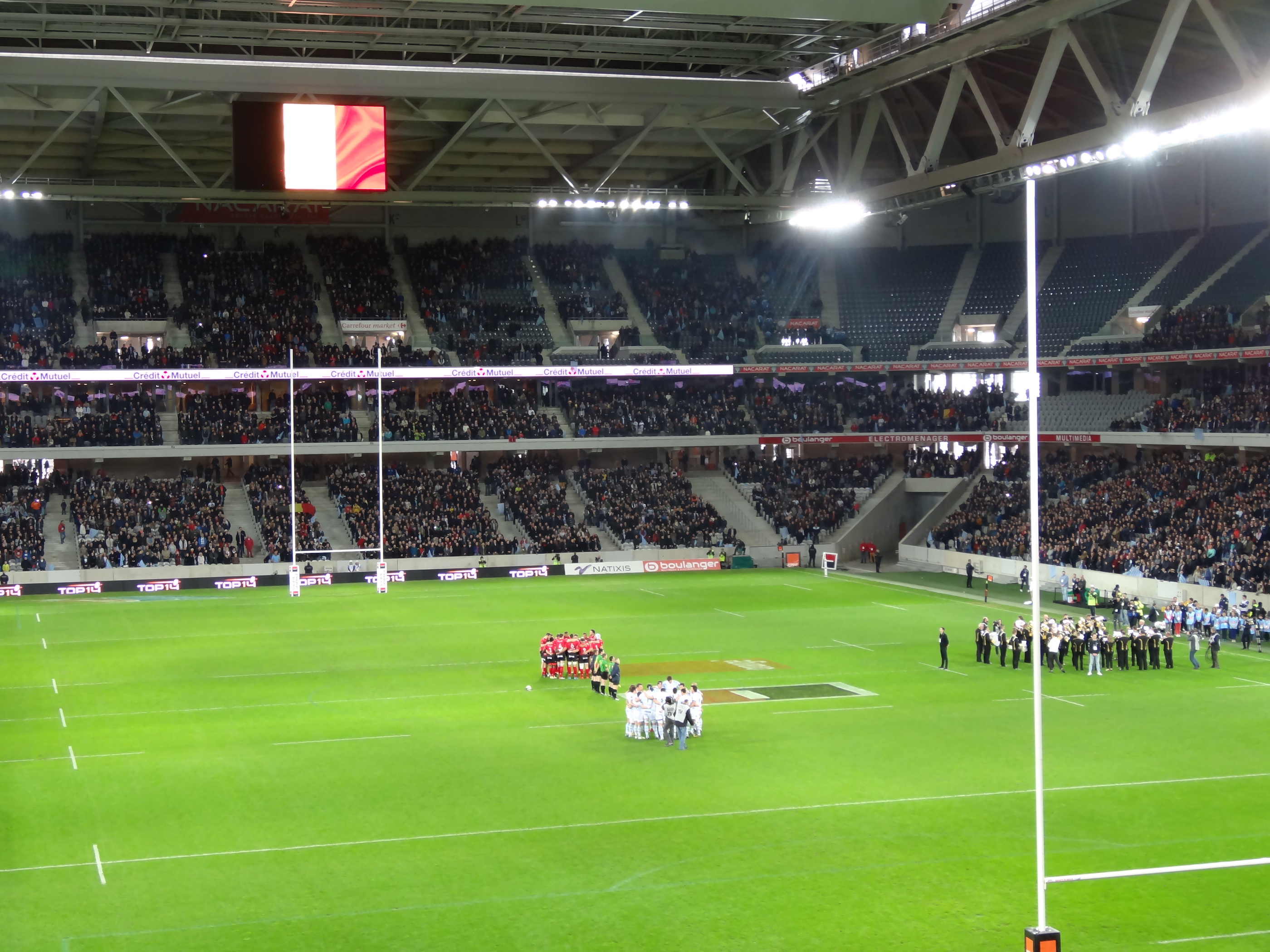 Racing 92 - RC Toulon